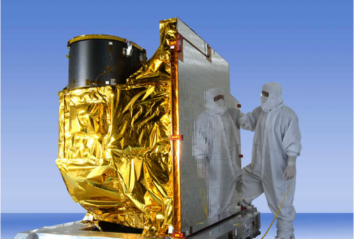 The Advanced Baseline Imager, a telescopic camera system for observing the Earth, fitted to the GOES-R series weather satellites in geostationary orbit.